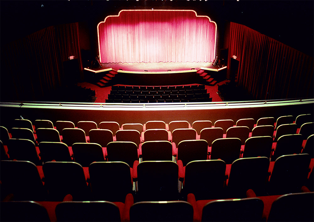 Balcony view of the Savannah Theatre in Savannah, Georgia